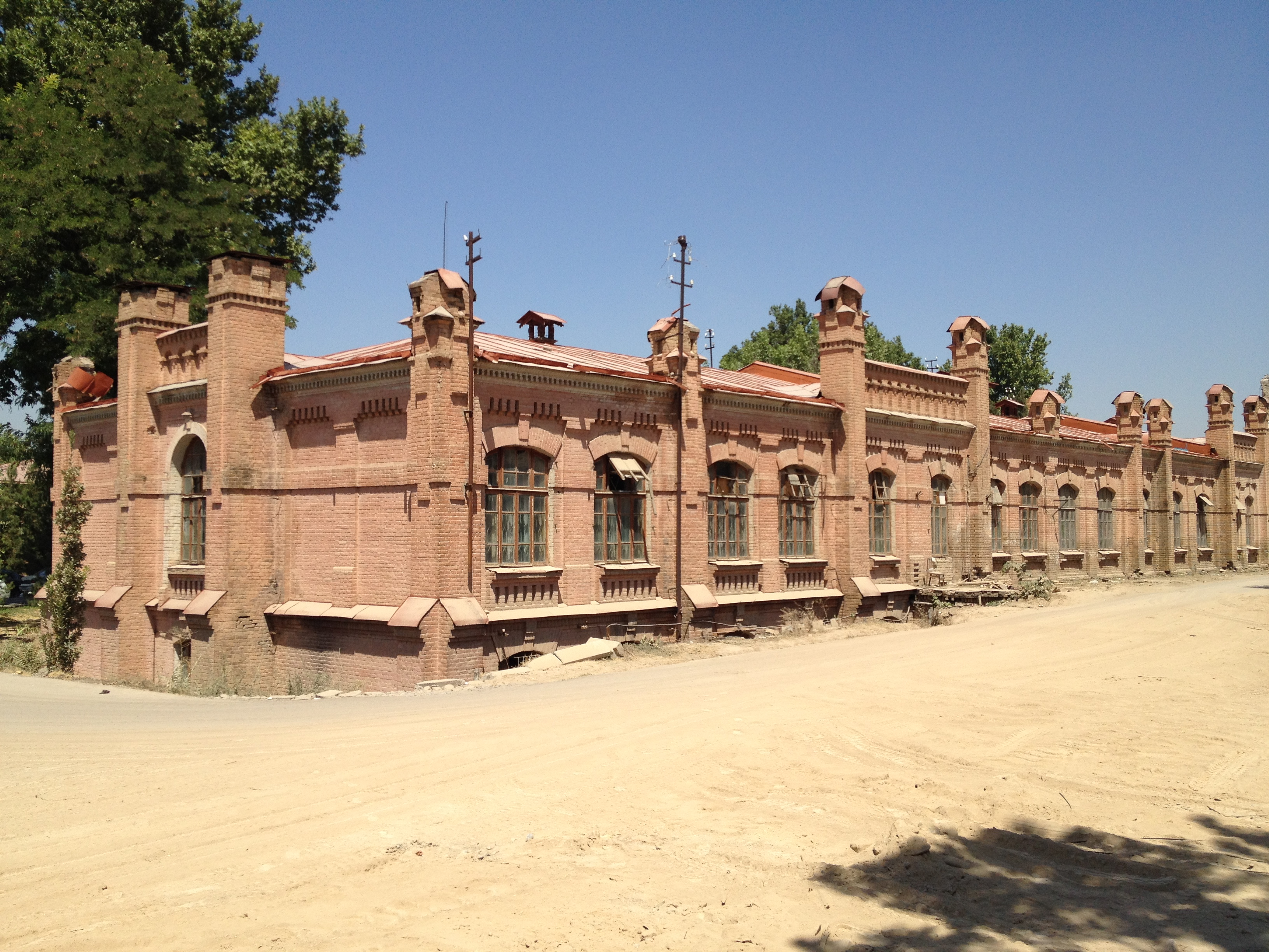 Wing of building of Kaufman orphanage (Institute of Power engineering and automatics in present) in Tashkent